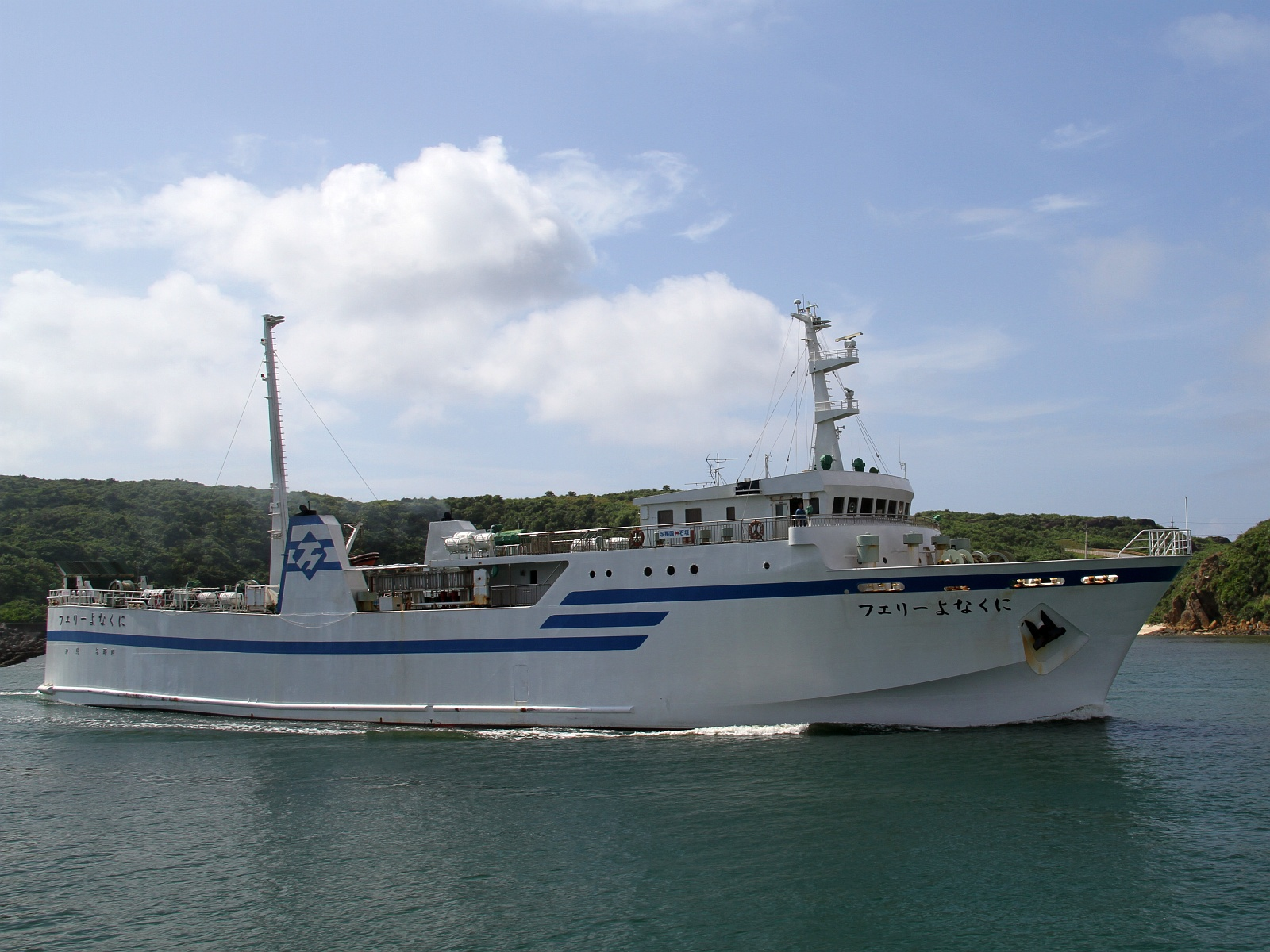 Ferry Yonakuni departing the Port of Kubura in Yonagunijima, Okinawa Prefecture, Japan